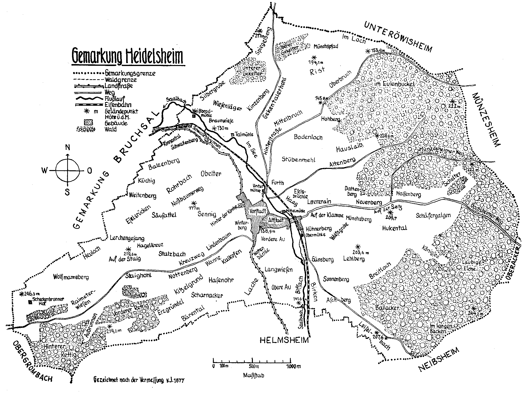 sketch map of Heidelsheim, now part of Bruchsal, Baden-Württemberg, Germany